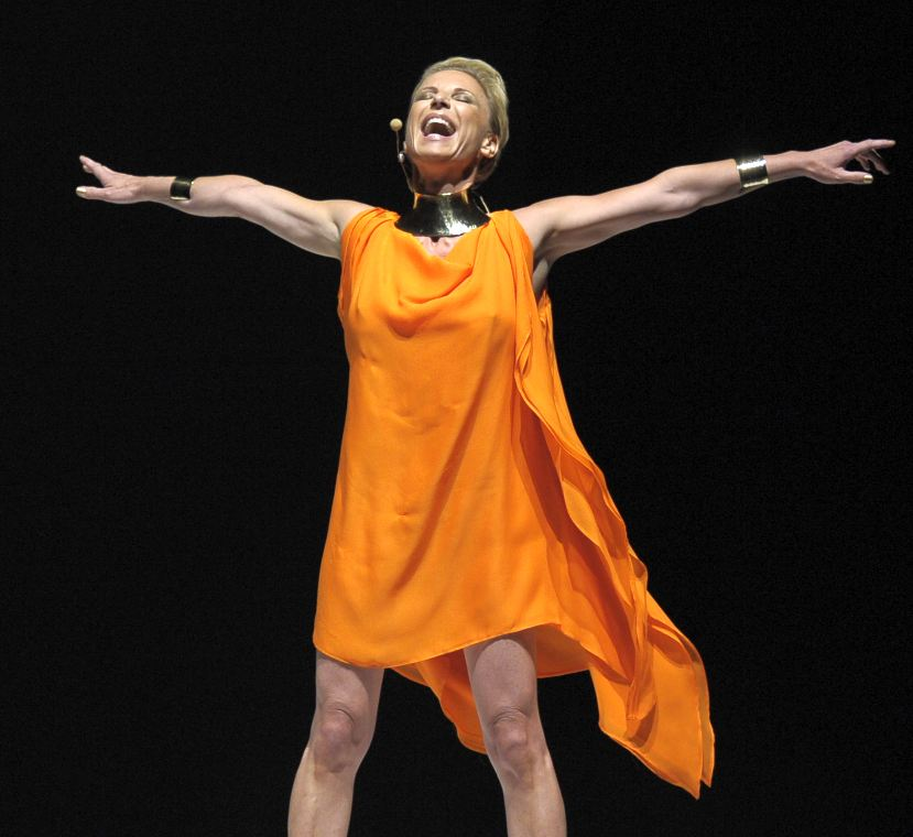 Nadja Michael @ MICHALSKY StyleNite